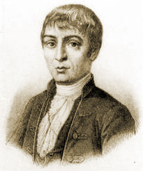 Hipólito Ruiz López, Spanish botanist and pharmacologist in South America